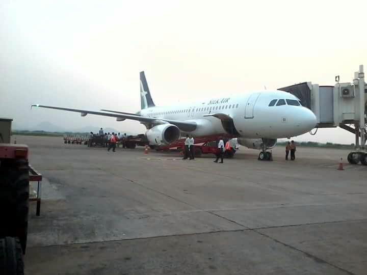 Silkair a320 at Visakhapatnam on its inaugural run